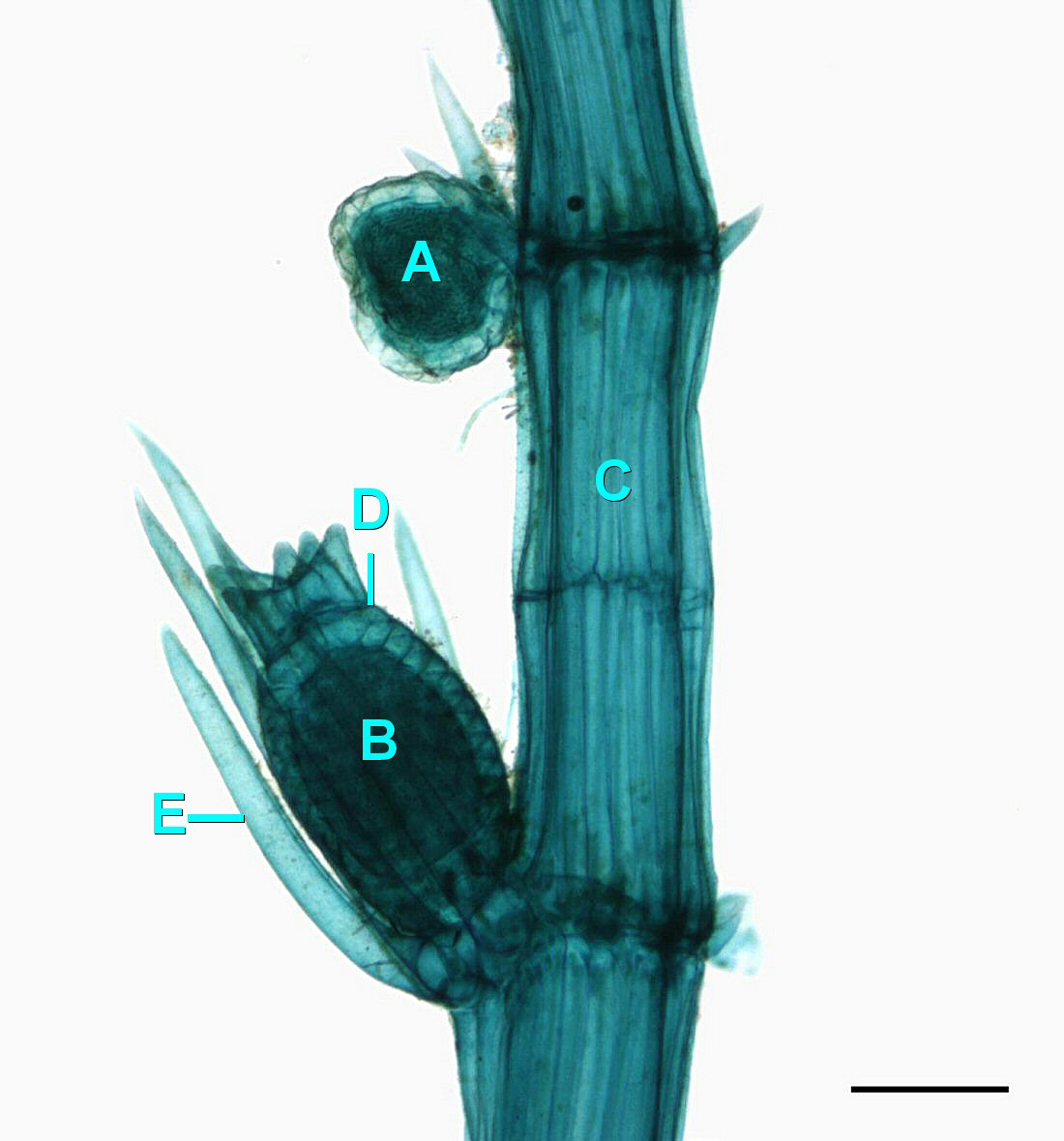 Photomicrograph of a Chara stem. A-Antheridium, B-Egg cell, C-Stem, D-Oogonium, E-Ligule. Scale=0.31mm.